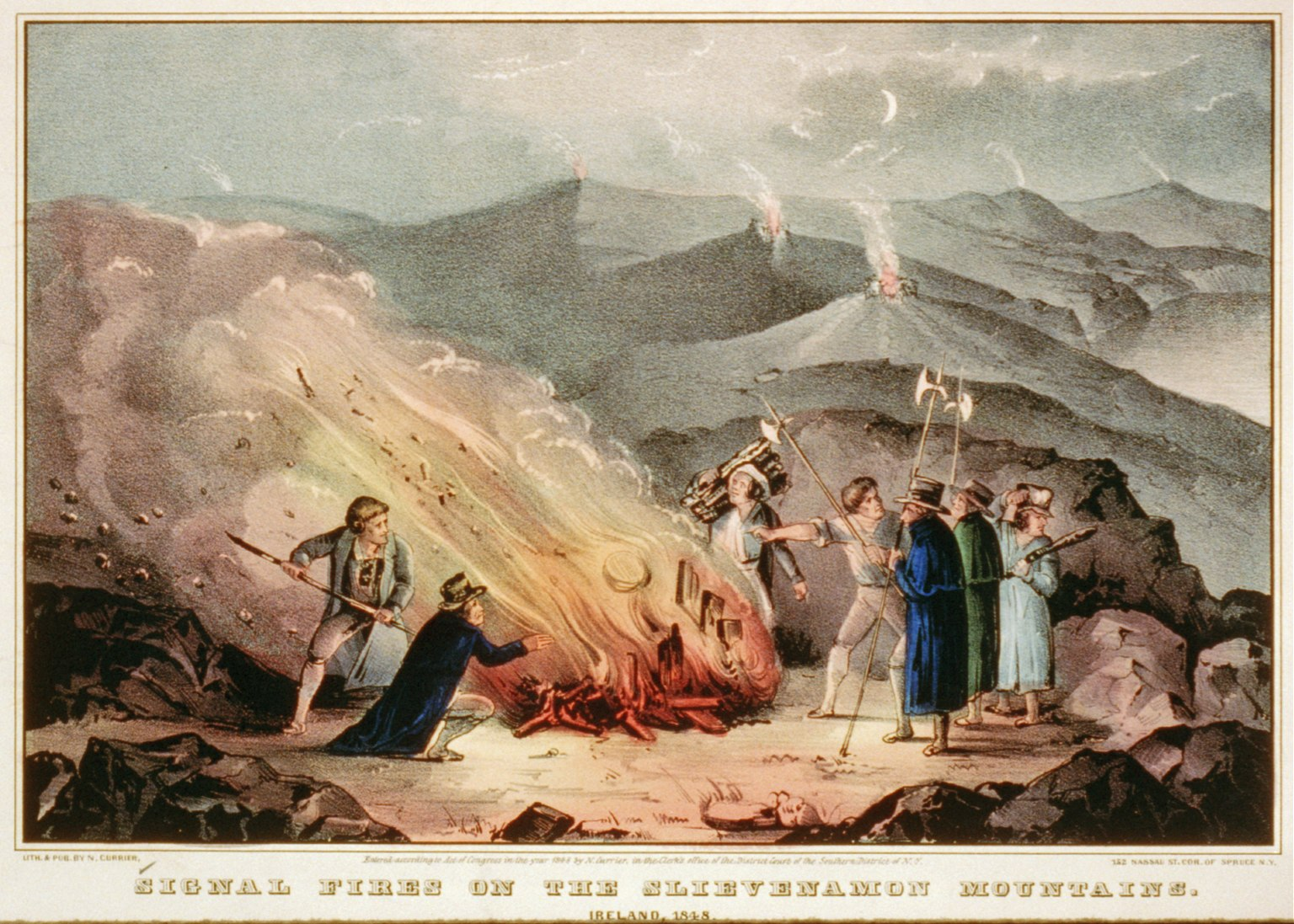 Title: Signal fires on the Slievenamon Mountains - Ireland, 1848 Abstract: Print shows a group of men surrounding a bonfire on a mountaintop during an insurrection in Tipperary. Three men hold weapons while other men tend the fire. Physical description: 1 print : lithograph, hand-colored. Notes: Entered according to Act of Congress in the year 1848 by N. Currier, in the Clerk's office of the Southern District of N.Y.; No. 620.; Lith. & pub. by N. Currier, 152 Nassau St. Cor. of Spruce N.Y.